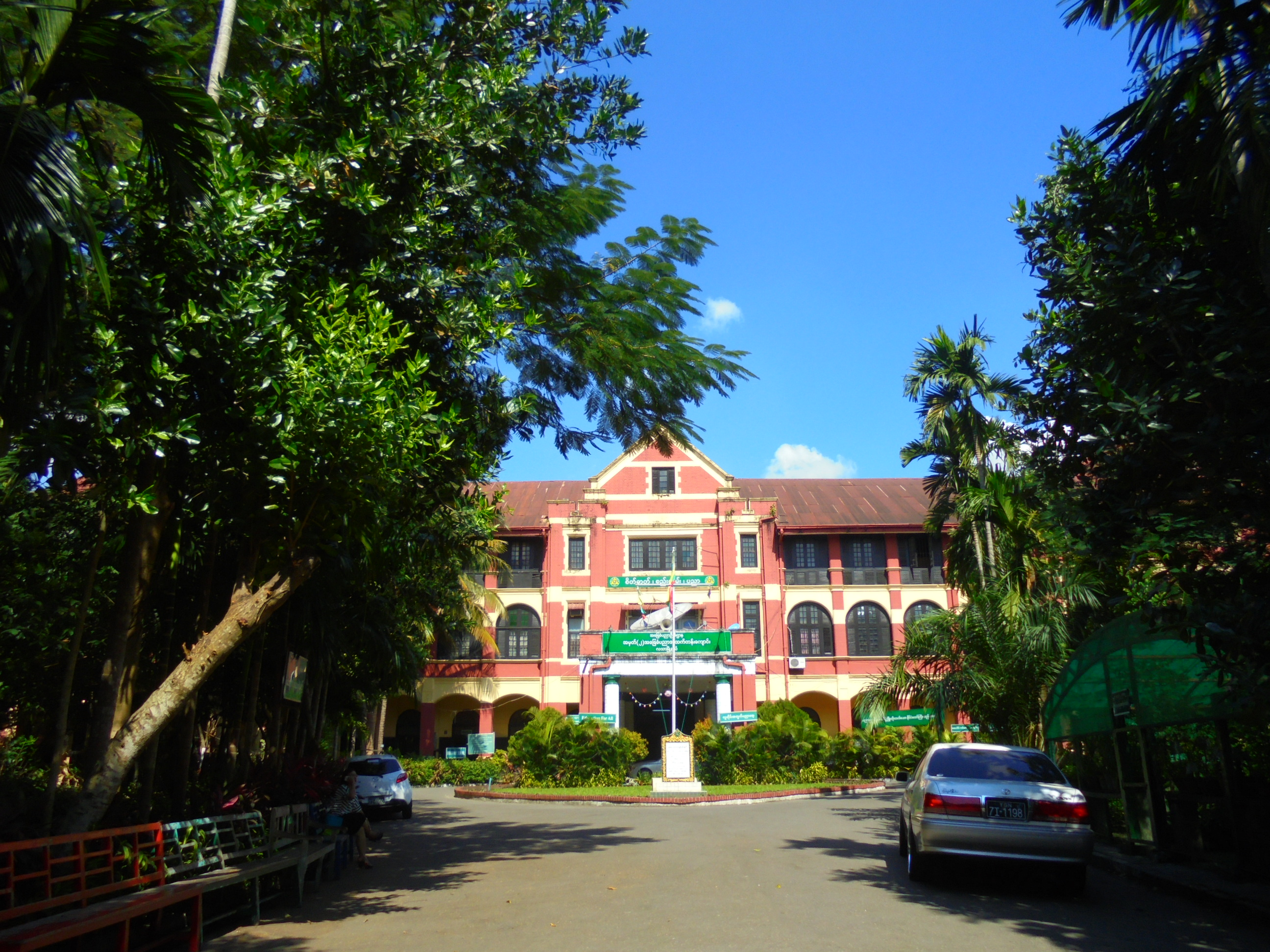 Basic Education High School No. 2 Latha (Building photo)